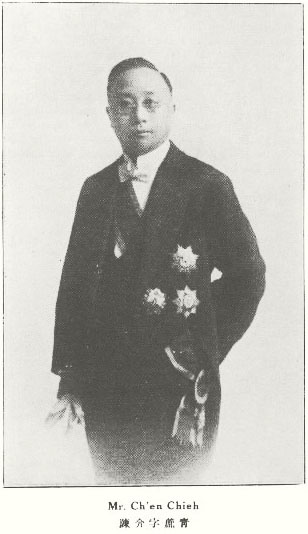 Chen Jie (Ch'en Chieh), Zheqing (1885 - 1951)